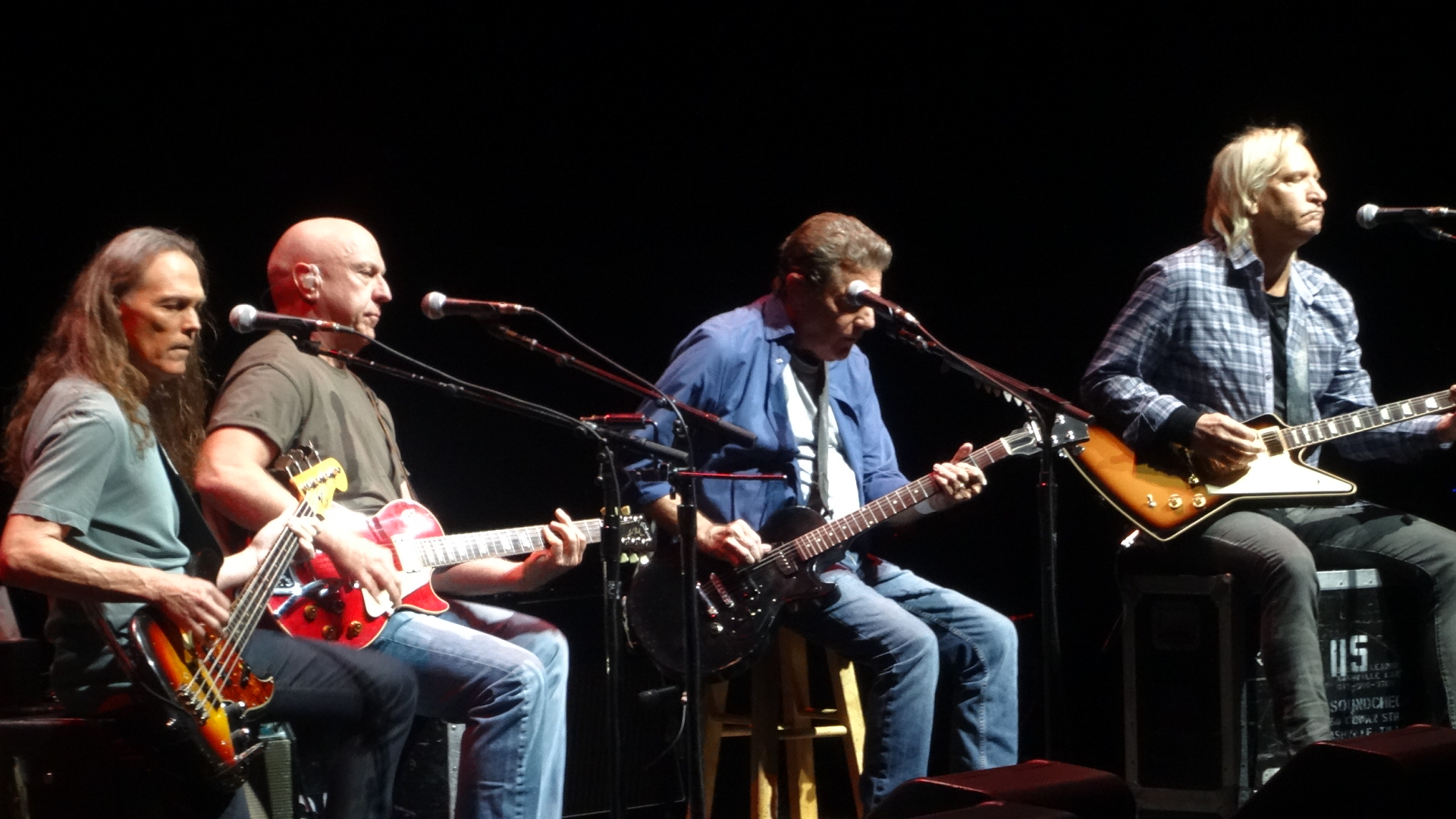 The Eagles in concert, "History of the Eagles" tour, Grand Rapids, September 2014. Doolin-Dalton. Left to right - Timothy B. Schmit, Bernie Leadon, Glenn Frey, Joe Walsh. Don Henley on drums singing lead vocals not shown